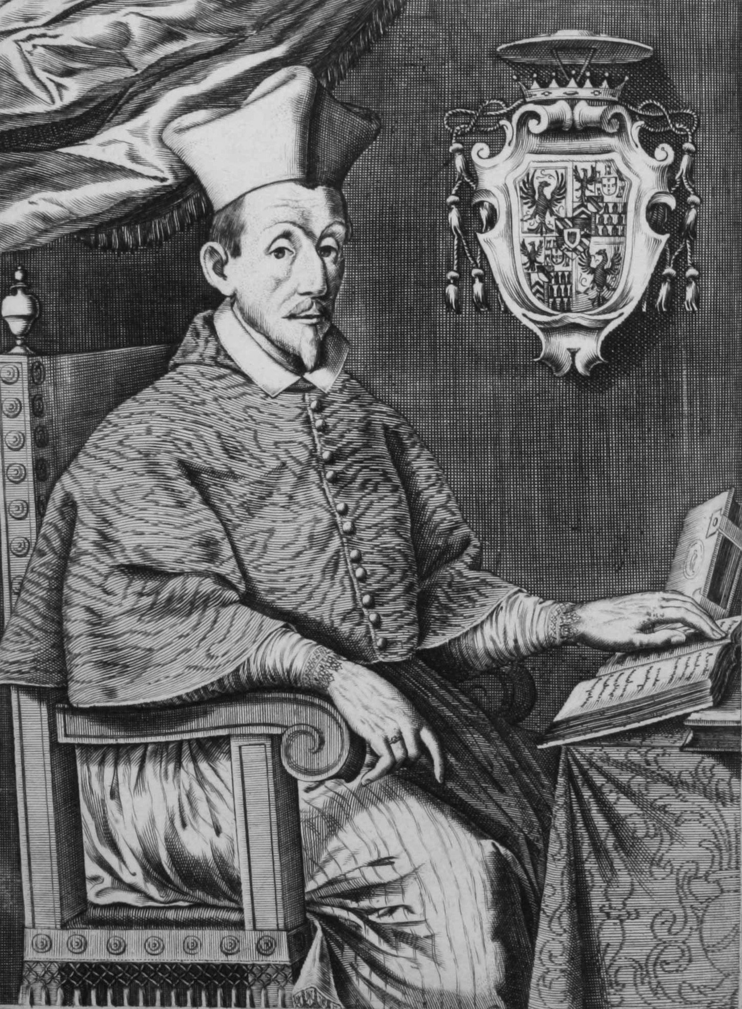 Mario Bettini (1582-1657; BETTINUS, Marius). Aerarium Philosophiae Mathematicae, In Quo Elementa Philosophiae Geometricae de Planis, Curvis, & Solidis figuris Applicata, Et Ornata Usibus eximiis in omni Scientiarum, & Artium genere, novis Praxibus, Paradoxis, locis Aristotelicis, & aliorum Philosophorum, & Scriptorum, Corollariis, Scholiis, Eruditionibus, Moralitatibus, Demonstrationibus novis, facillimis, & universalissimis confirmata, Methodo Iucundiore, ac breviore in Tres Tomos distributa sunt. Intercessere Ingeniosae inventionis Exodia Horaria 3 In Quo Reliqui quatuor libri elementares de planis applicati, &c. Epilogus Planimetricus, Breviarium speculativum , & practicum de curvis, & solidis cum facillimis, ac novis demonstrationibus, & Materiae plurium Tomorum indicatae : Cum Indicibus viginti communibus Secundo, et Tertio huic Tomo. Bologna: G.B. Ferroni, 1648. First edition.